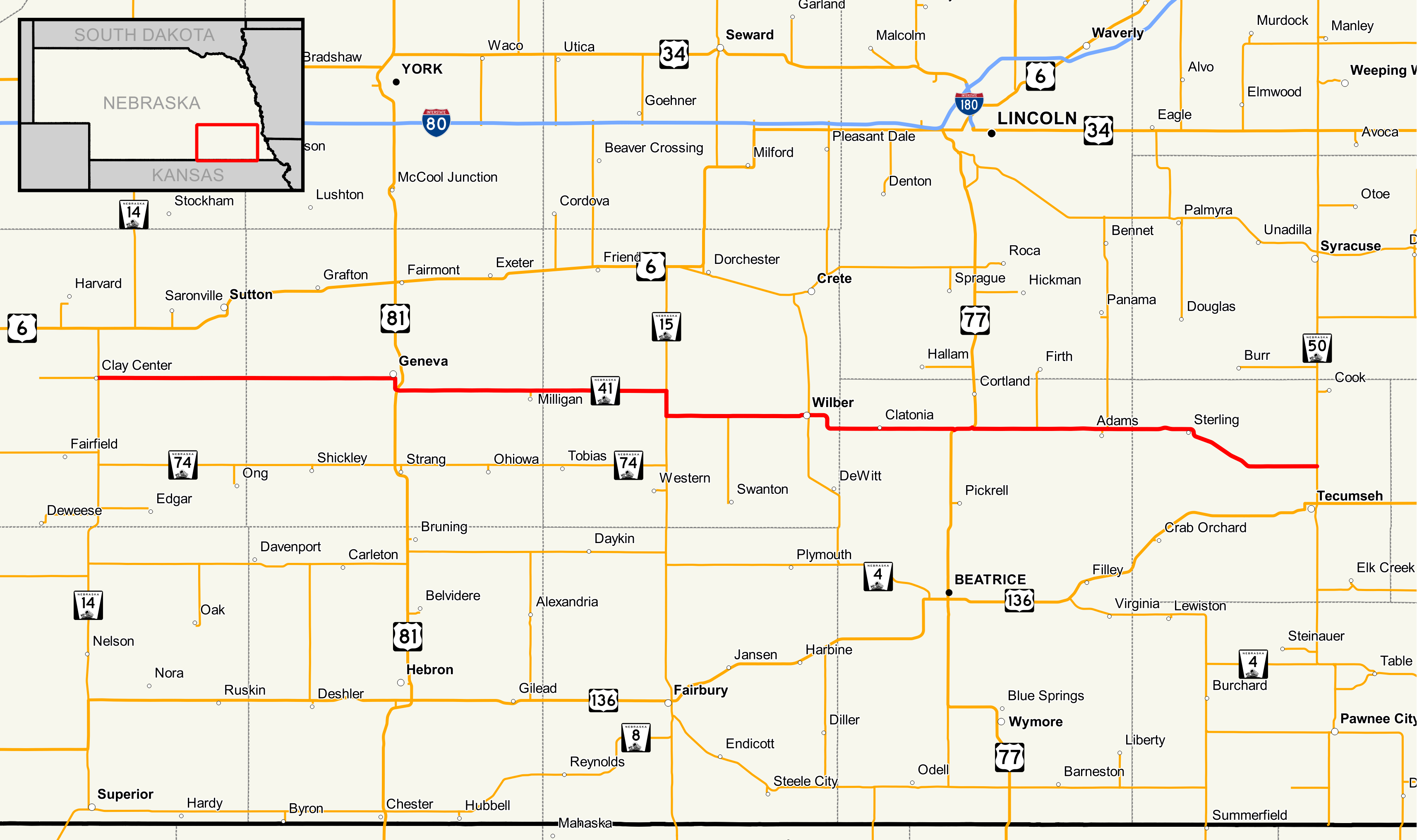 Map of Nebraska Highway 41 Data Sources: Nebraska Highways - - Dec 2016 Nebraska County Boundaries - - Dec 2016 Nebraska City Boundaries - - Dec 2016 This PNG graphic was created with QGIS